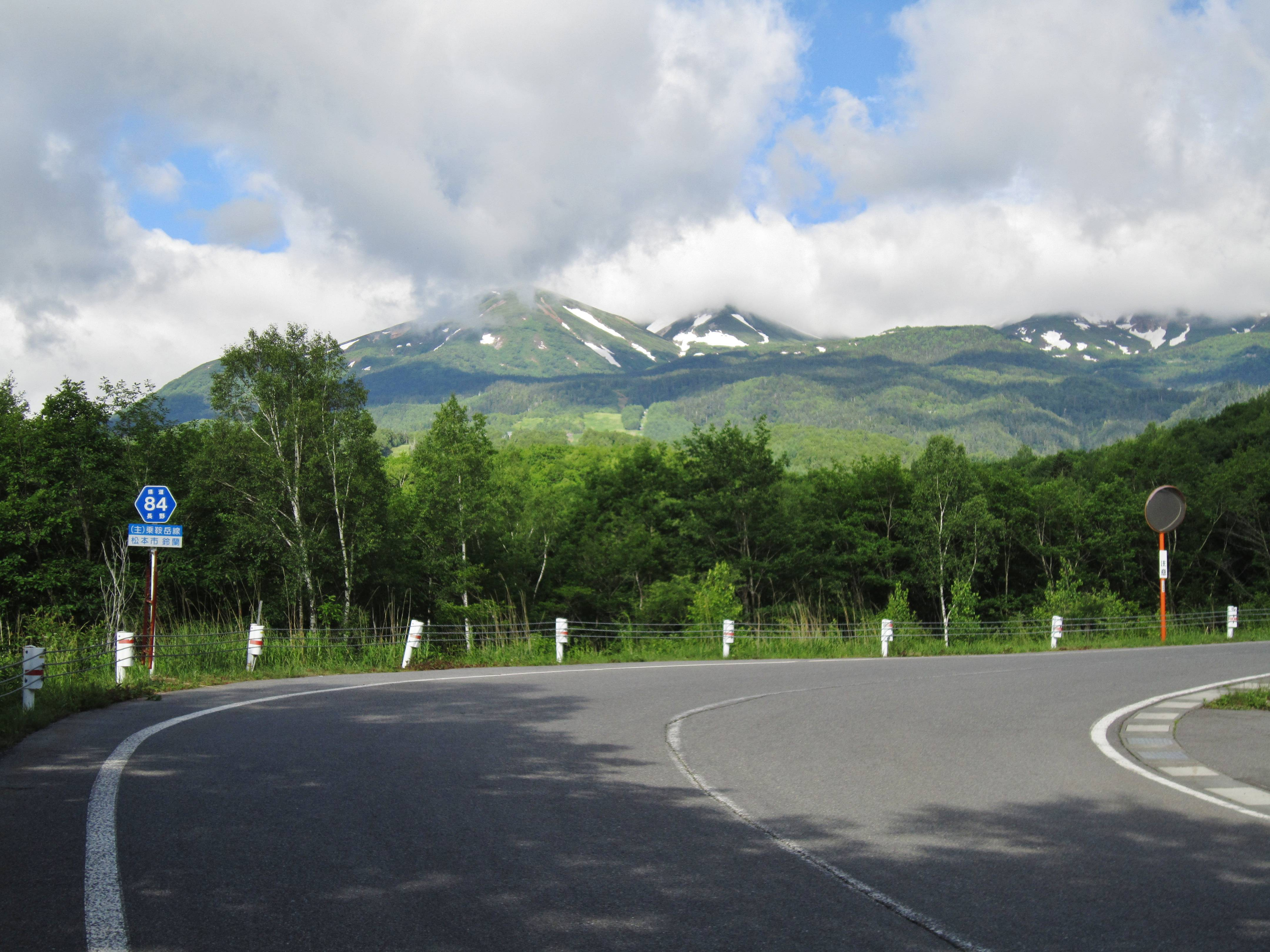 The Nagano Prefectural Road Route 84 in Suzuran, Matsumoto City